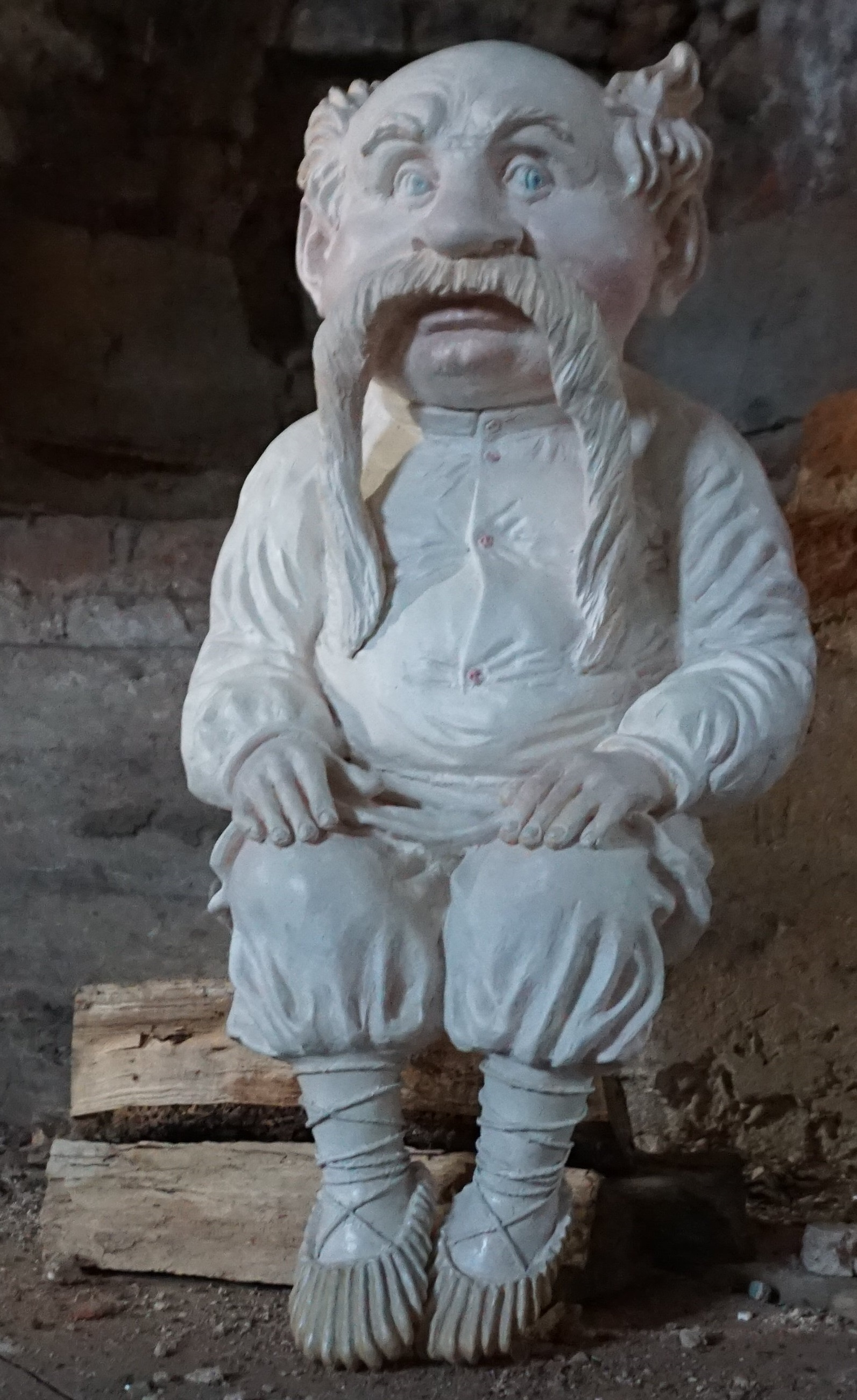 Domovoy, the Slavic household god.